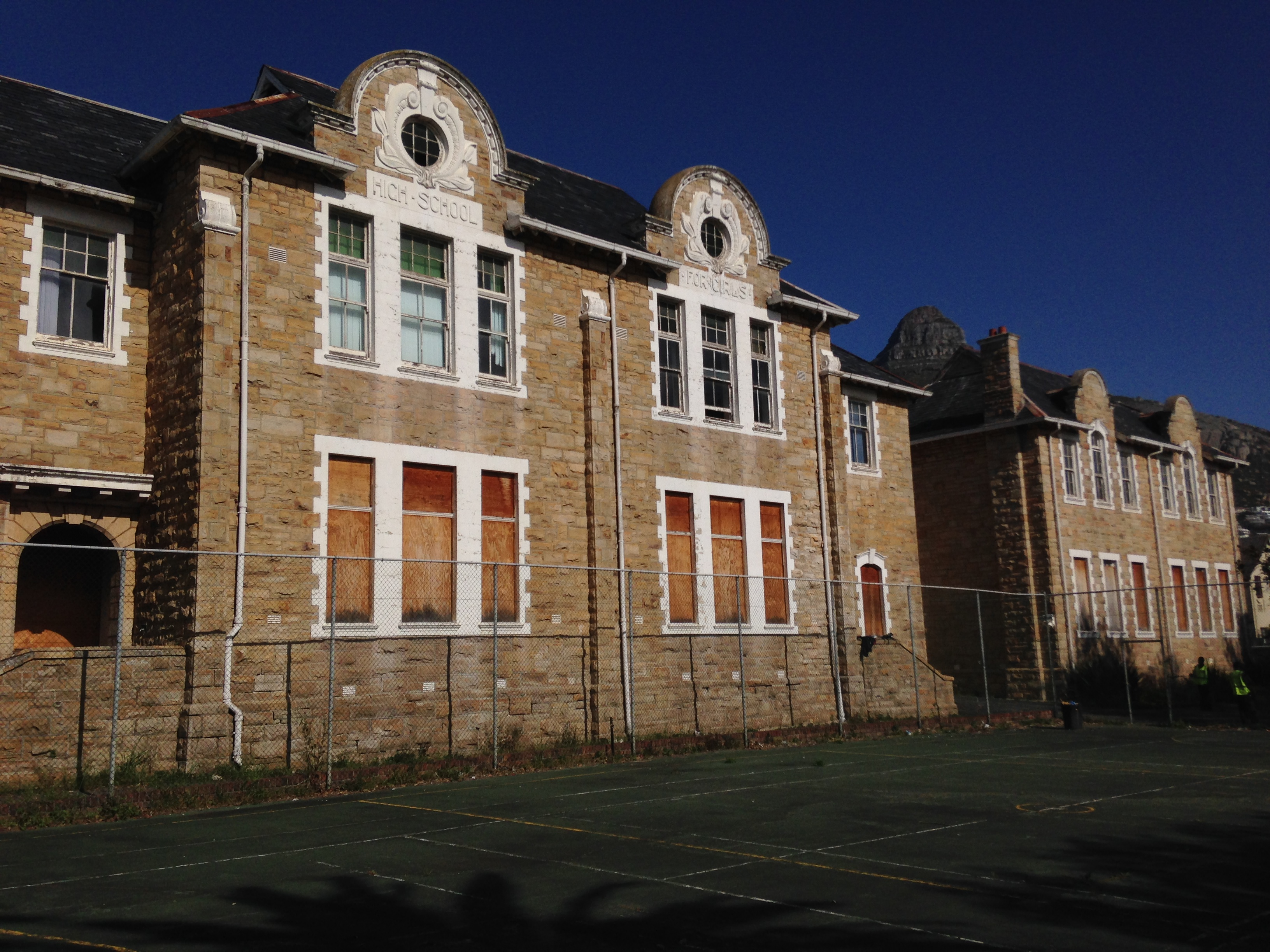 The Old Tafelberg School building, Main Road, Sea Point. Prior to being Tafelberg the building was the site of the Ellerslie Girls' High School. At the time of taking this picture the school building had been disused and boarded up for a number of years. This media shows a South African Protected Site with SAHRA file reference 9/2/018/0064.